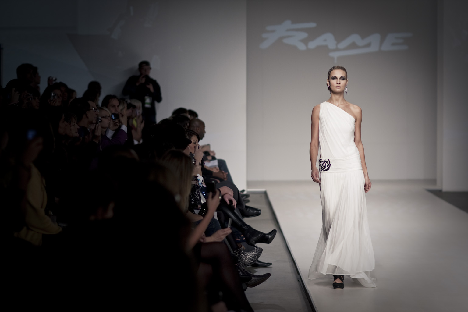 Photo from Spring/Summer 2010 runway show Toronto